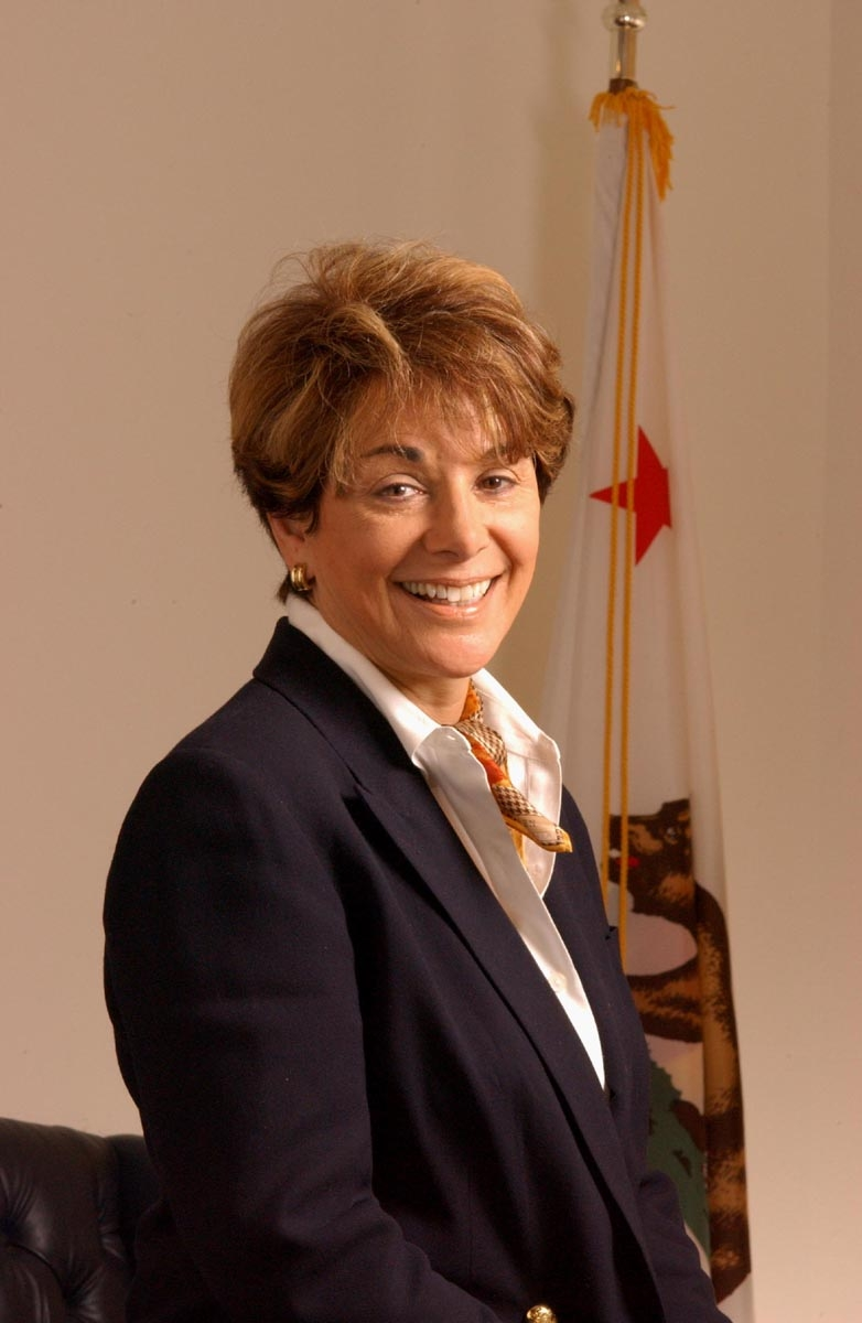 Anna Eshoo, member of the United States House of Representatives.